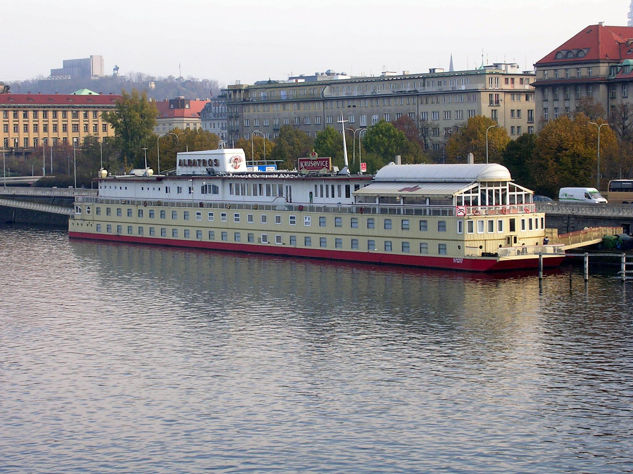 New Town, Prague. Albatros Botel.